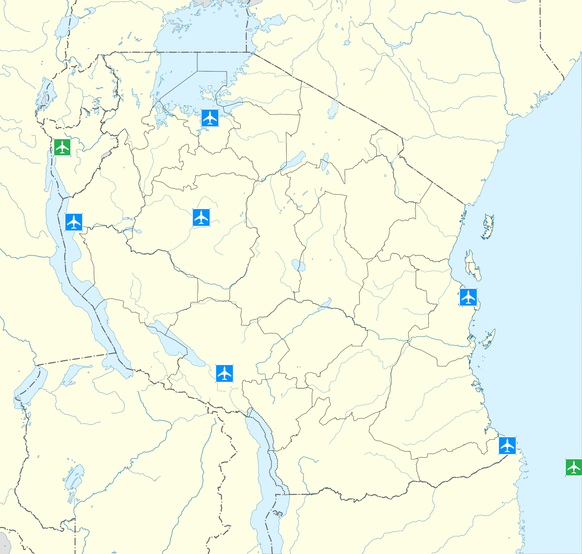 Air Tanzania destinations International Domestic